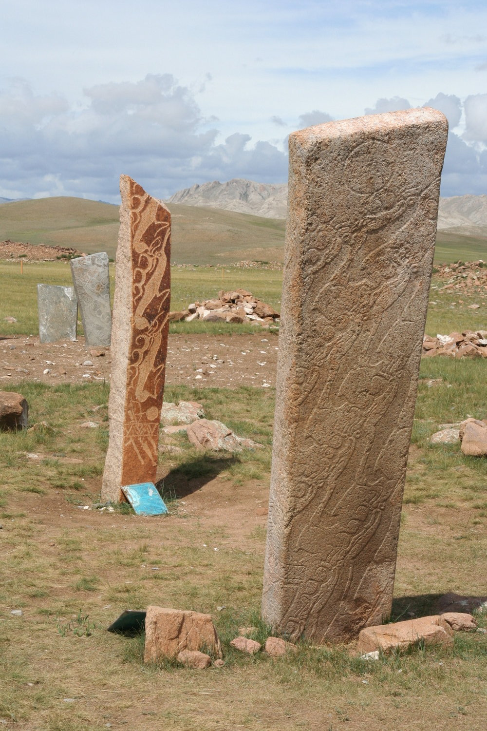 Deer stone near Mörön in Mongolia